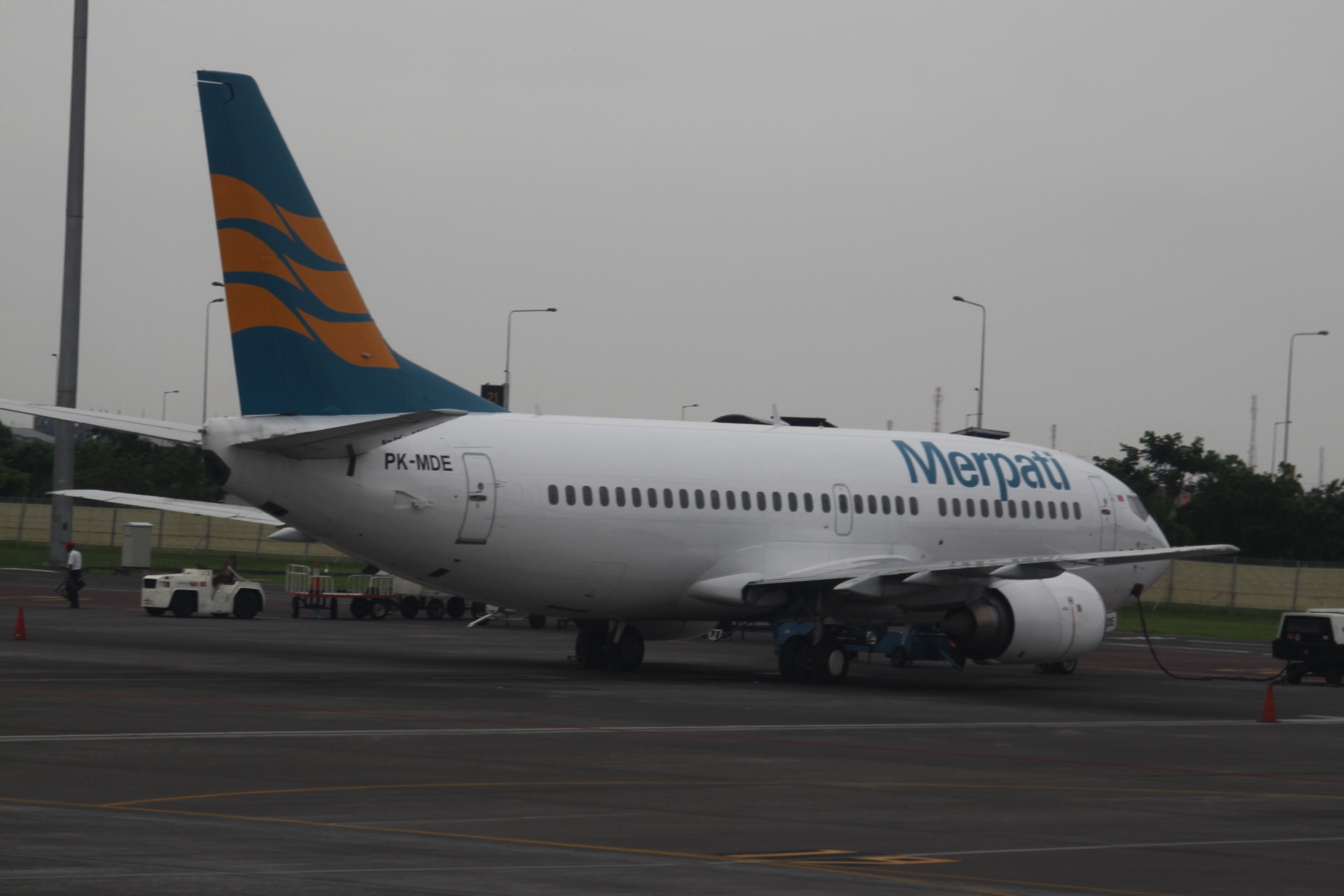 At Surabaya